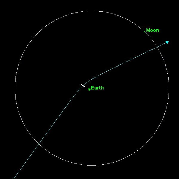 Aphopis orbit